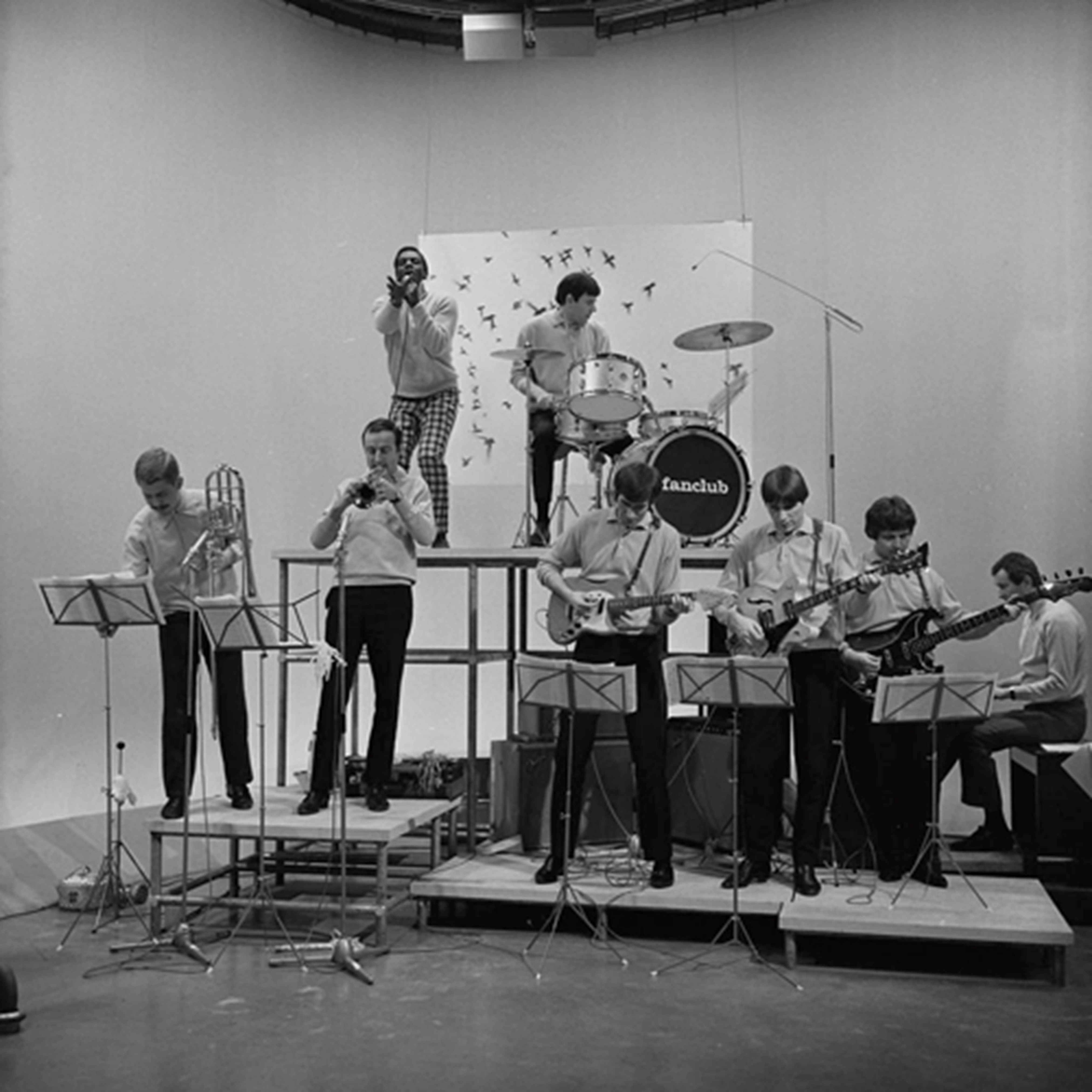 Davy Jones (West-Indies) performing the song "In the midnight hour" in Dutch TV programme Fanclub. Registered 12 Nov. 1966, broadcast 18 Nov. 1966.